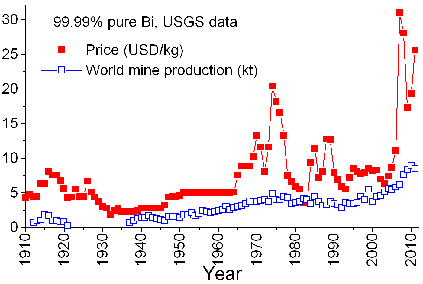 Bismuth Statistics and Information. see "Metal Prices in the United States through 1998"